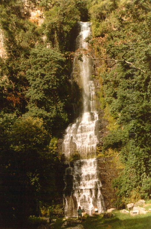 Bridal Veils Falls, a waterfall in the hills outside Chimanimani in the Eastern Highlands of Zimbabwe.